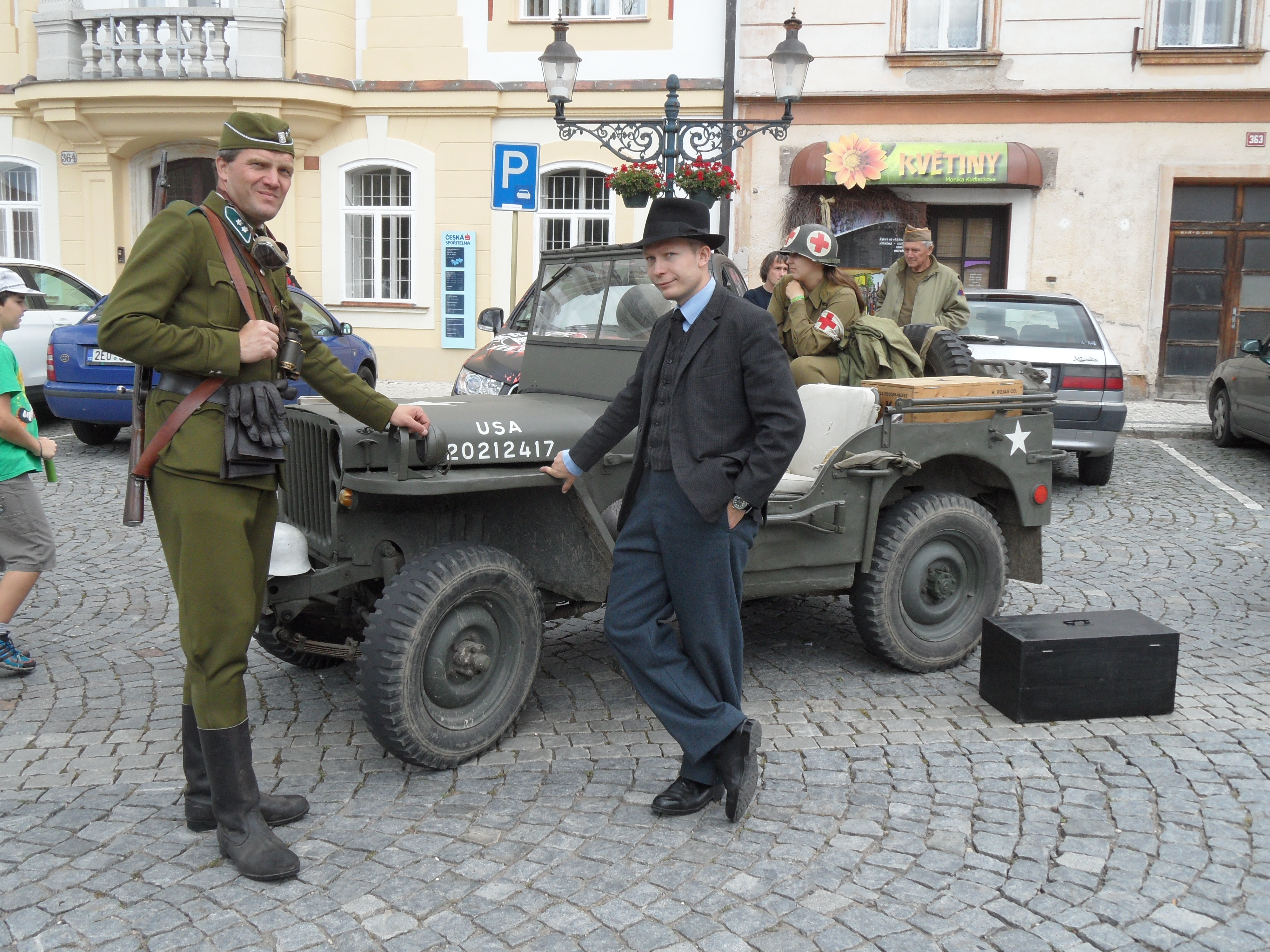 Akce Cihelna 2014 A1. End of Graceful Ride of Historical Military Cars: Jeep, Králíky: Velké náměsti, Ústí nad Orlicí District, the Czech Republic.